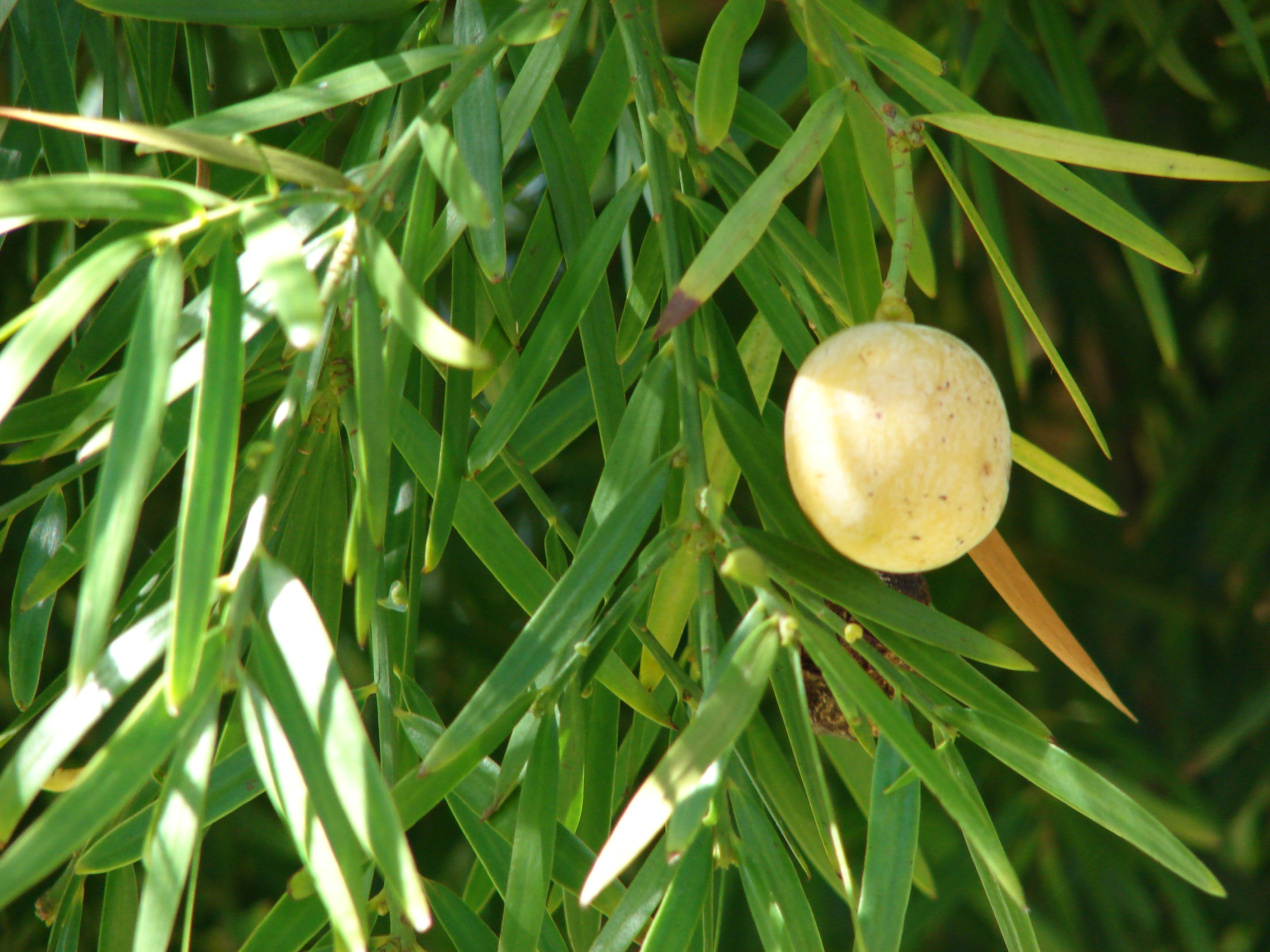 Afrocarpus gracilior (leaves and cones). Location: Maui, Eddie Tam Makawao